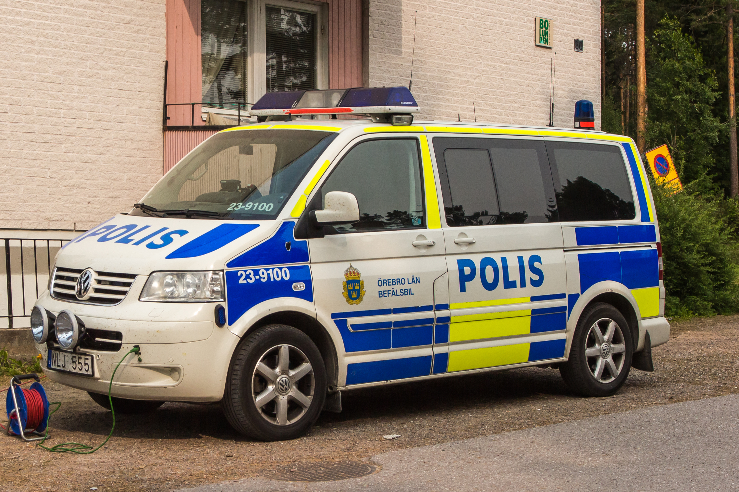 Swedish police command vehicle, 2008 Volkswagen Multivan 3,2.